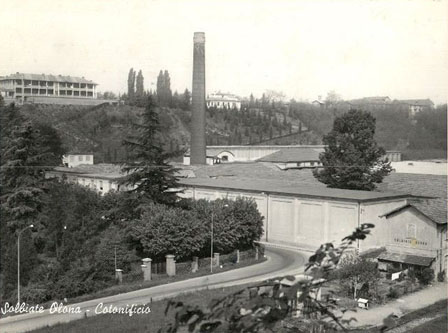 Solbiate Olona railway station